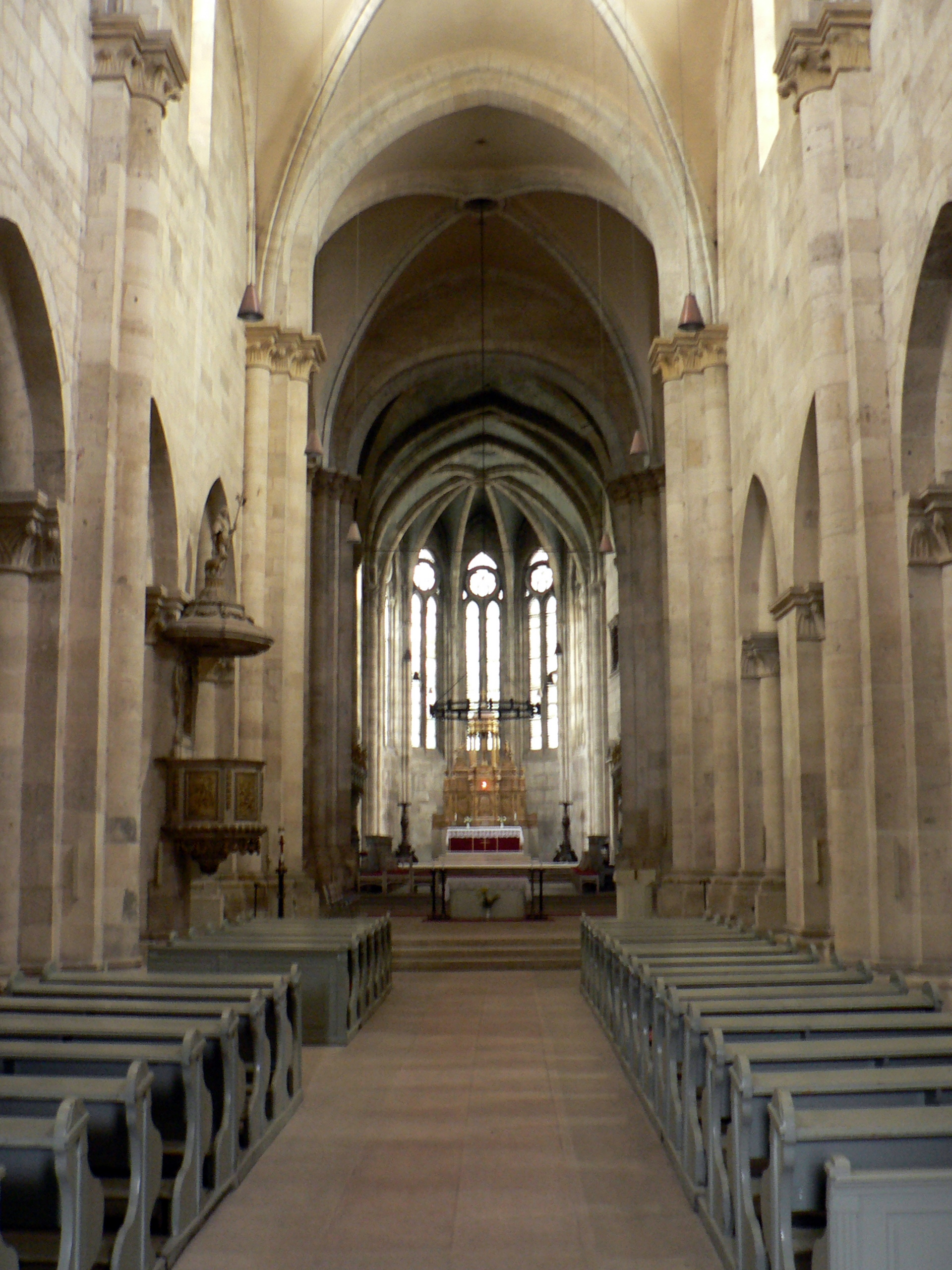 Roman Catholic cathedral in Alba Iulia